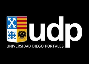 it is a log of udp